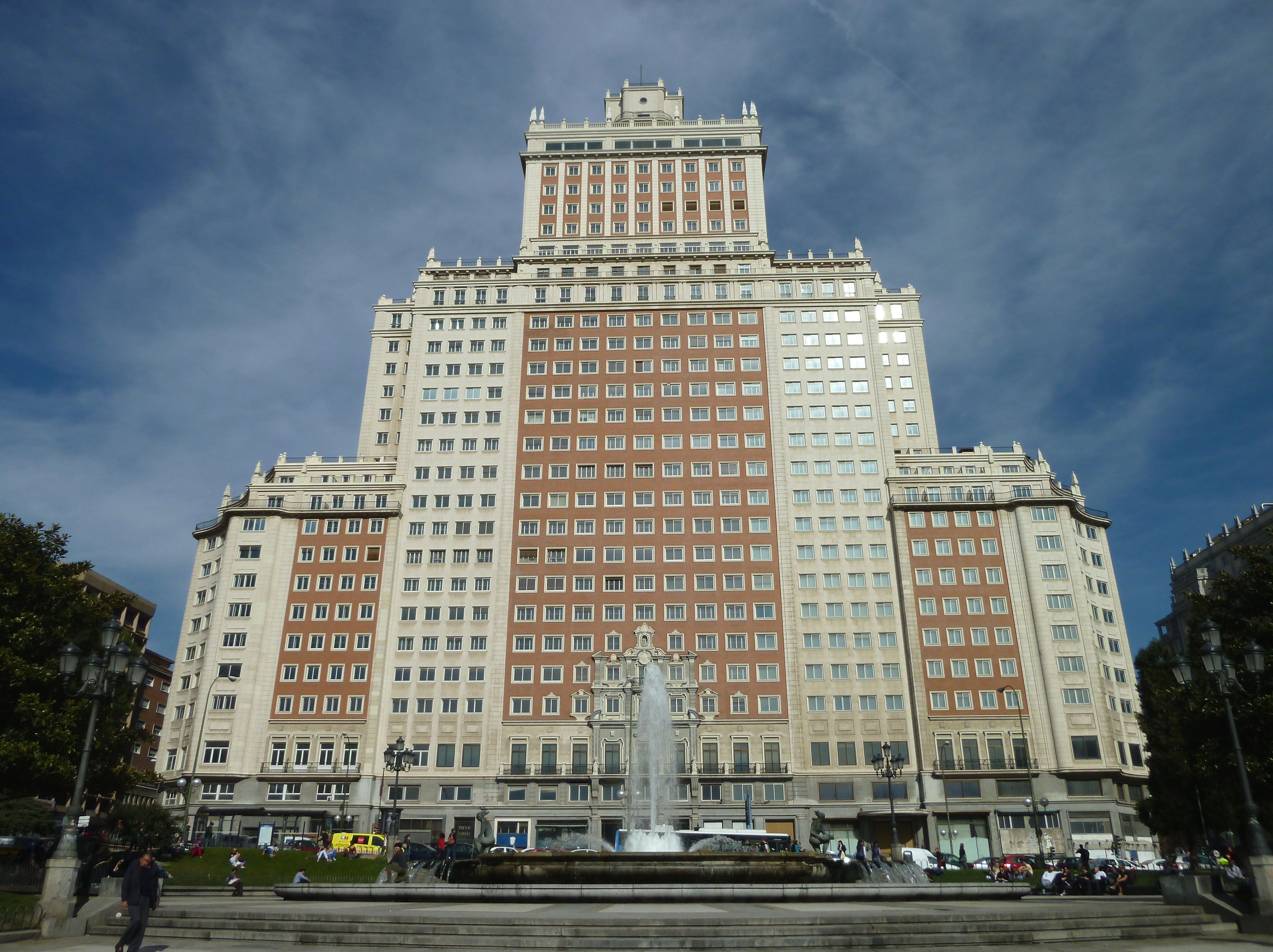 View of the south-west façade of Edificio España from Plaza de España (square) in Madrid (Spain).